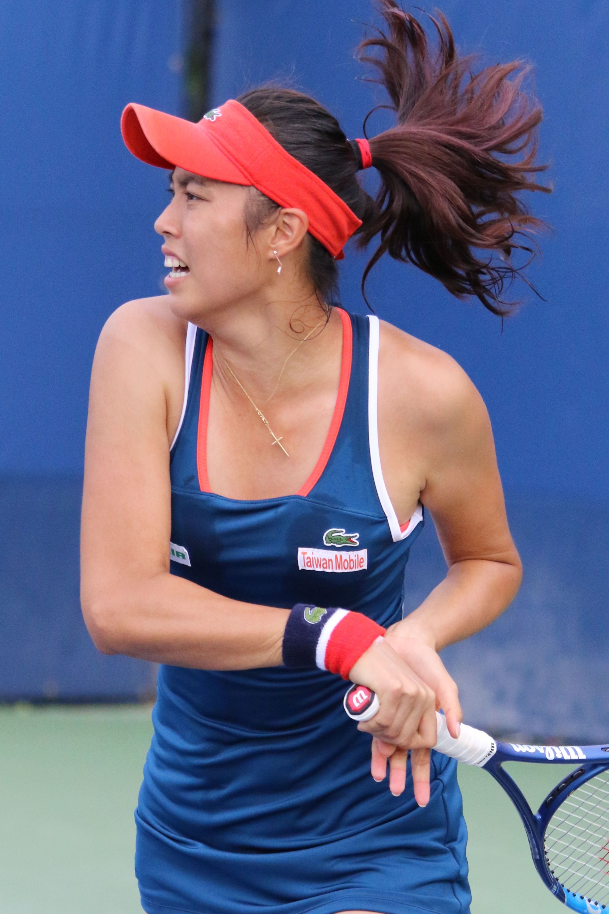 Chan HC. US16 (37)